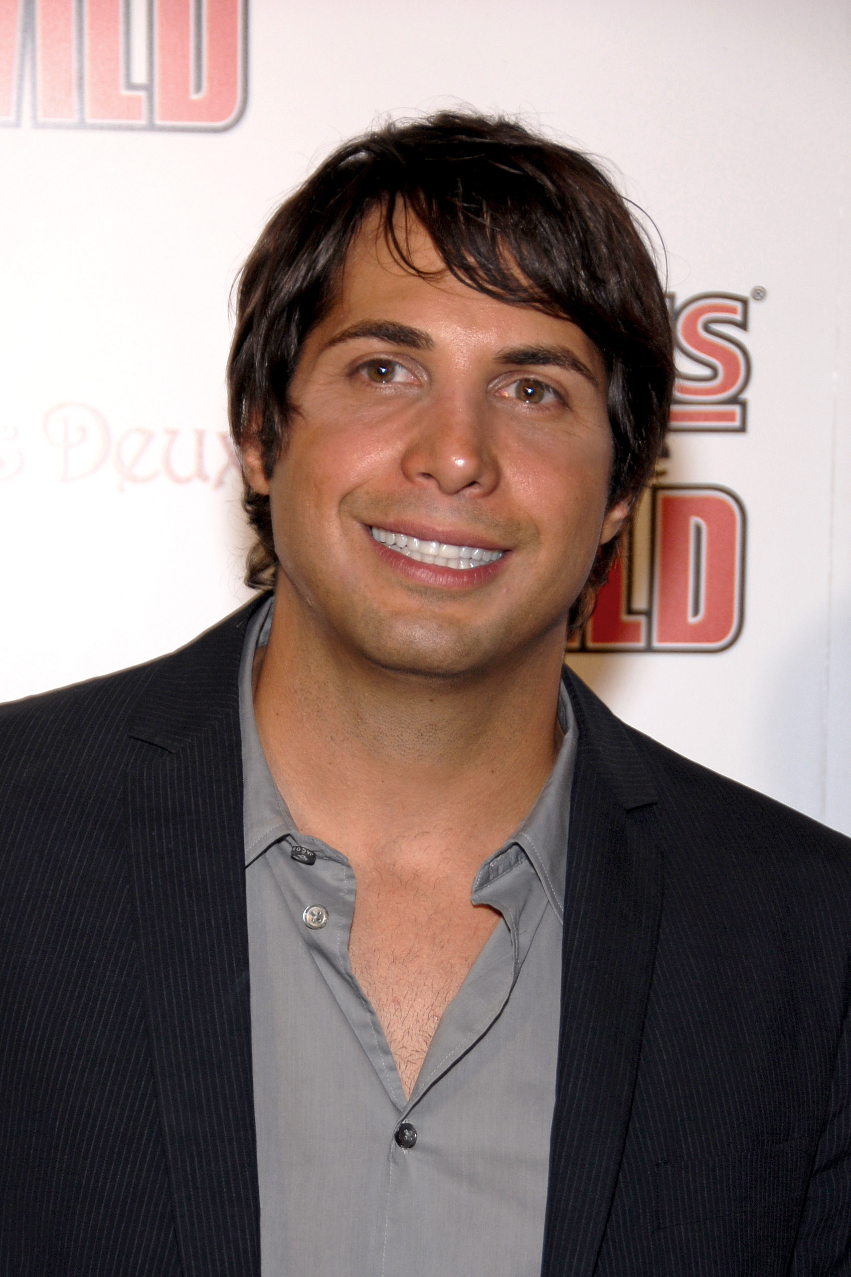 Joe Francis attending the second issue release of "Girls Gone Wild Magazine" Party at Les Deux, Hollywood, June 4, 2008